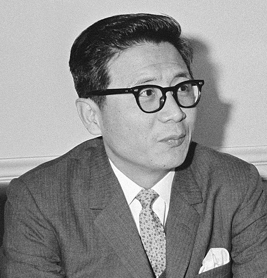 Lee, Tong Won (이동원) Foreign Minister of South Korea, Tong Won Lee (left), meets with Secretary of Defense Robert S. McNamara at the Pentagon. Location: ARLINGTON, VIRGINIA (VA) UNITED STATES OF AMERICA (USA)